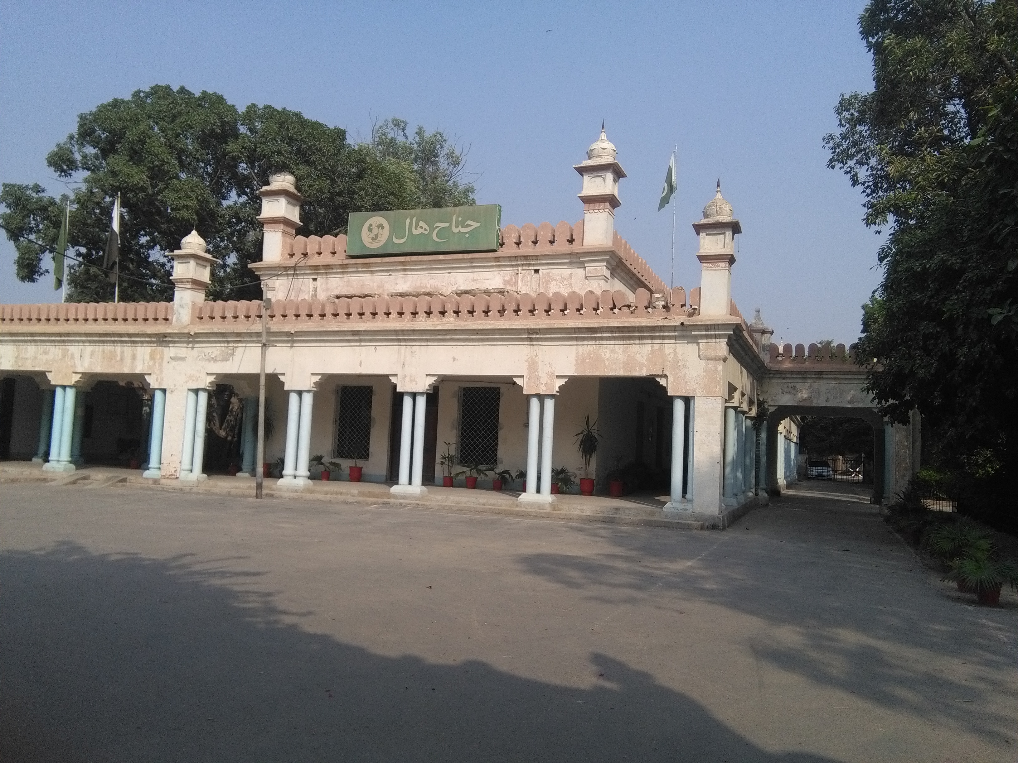 Jinnah Hall This is a photo of a monument in Pakistan identified as the PB-U-23